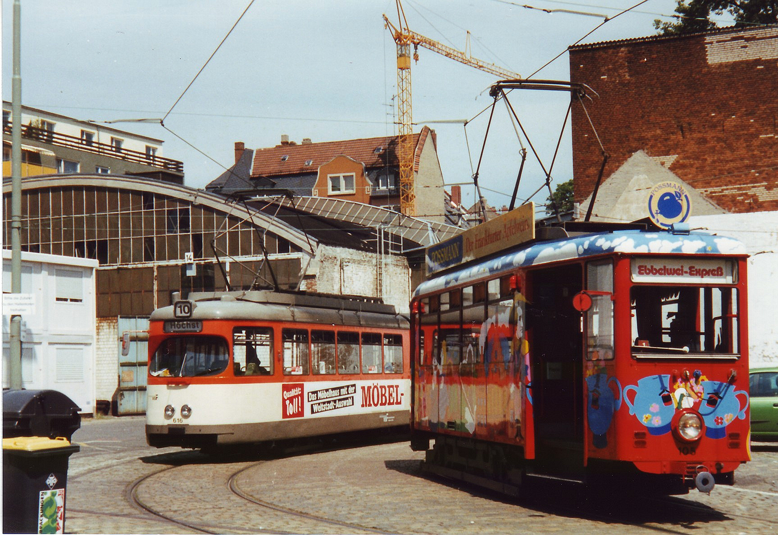 tram depot in Frankfurt am Main-Bornheim with K-type railcar 105 and M-type railcar 616 in June 1998